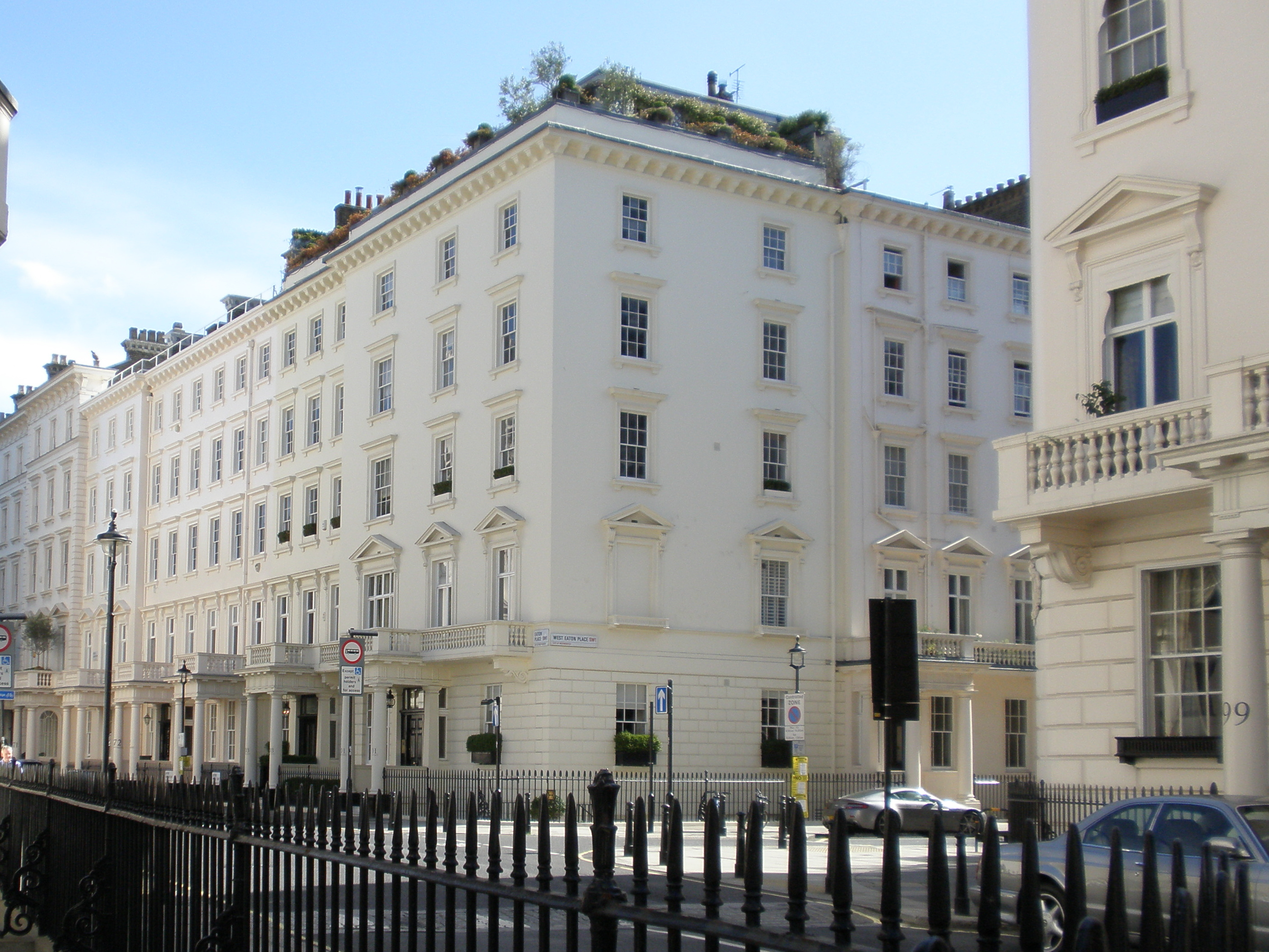 Some of London's smartest streets.